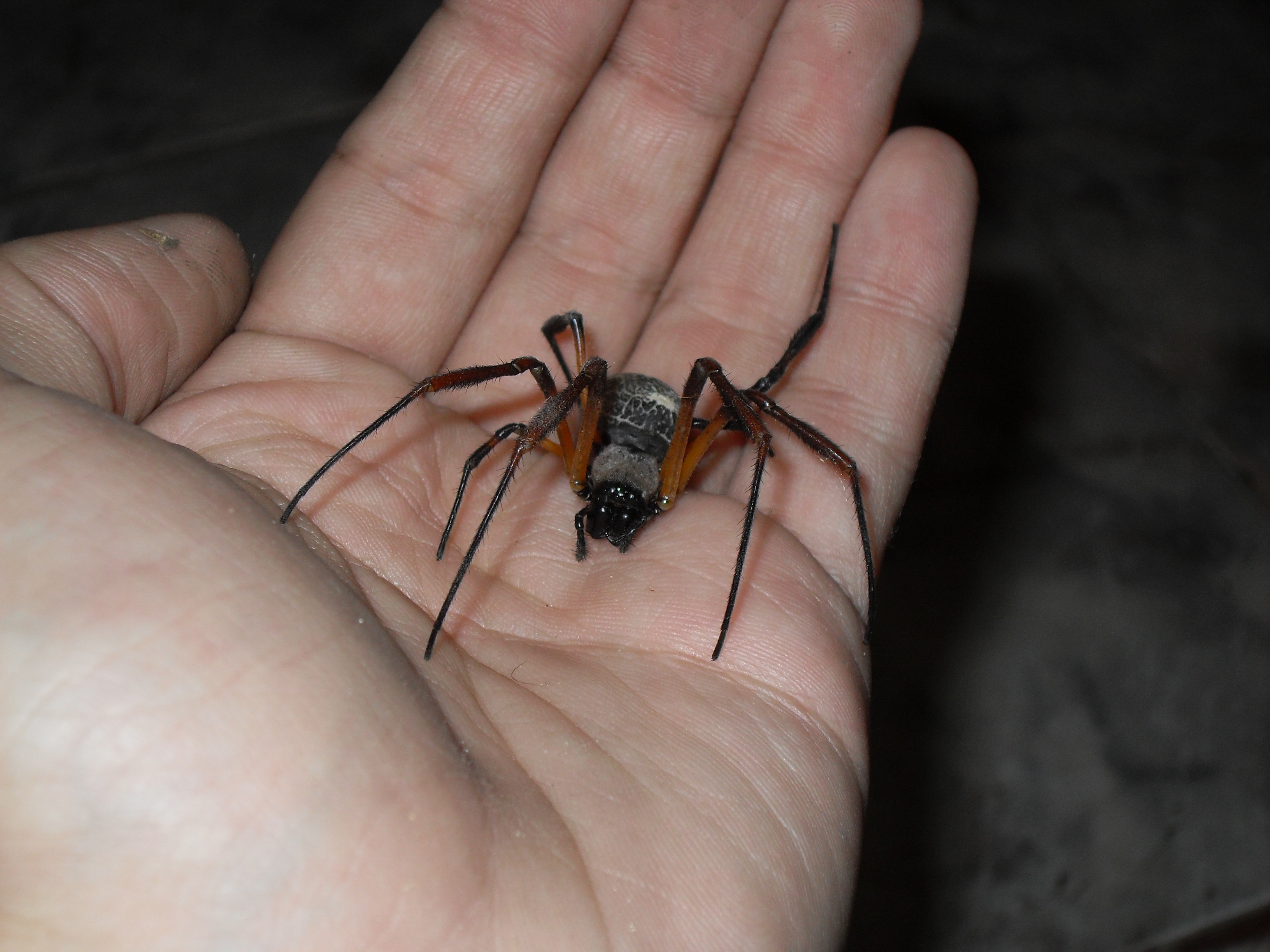 nephila clavipes